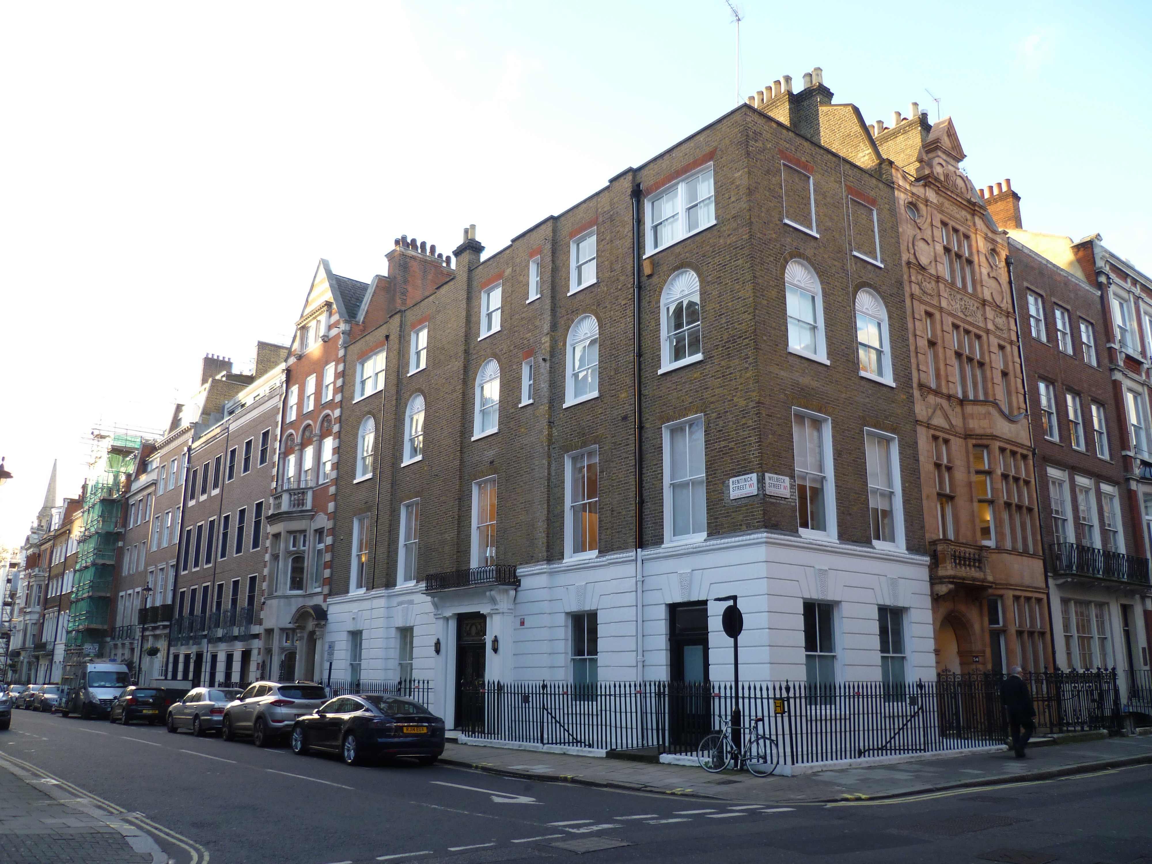 London